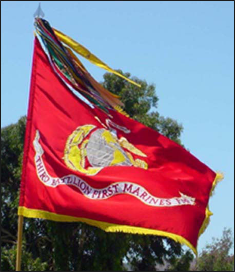 Standard of the 3rd Battalion, 1st Marines, U.S. Marine Corps